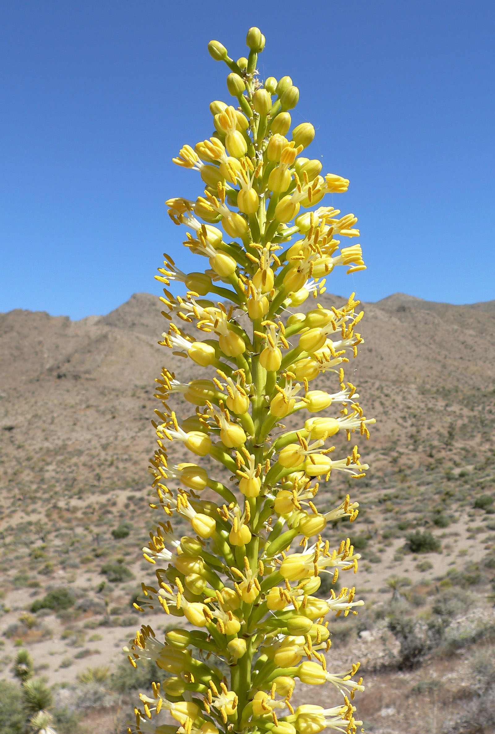 Agave utahensis at Columbia Pass, southern Spring Mountains, west of Goodsprings, Nevada